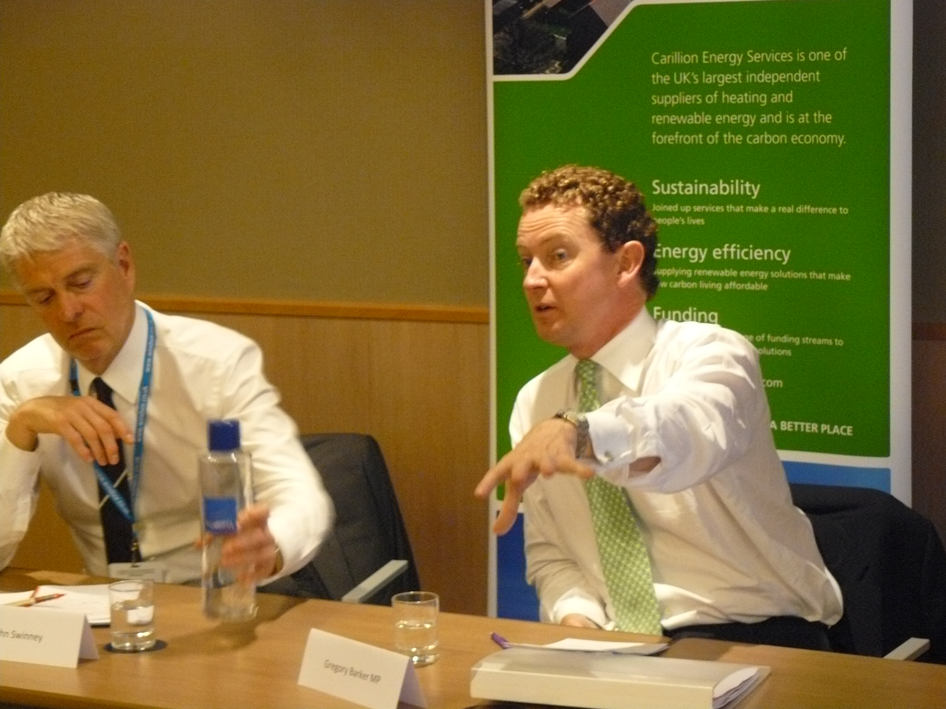 Policy Exchange Conservative Conference Fringe Event: Will the Green Deal deliver? 03.10.11